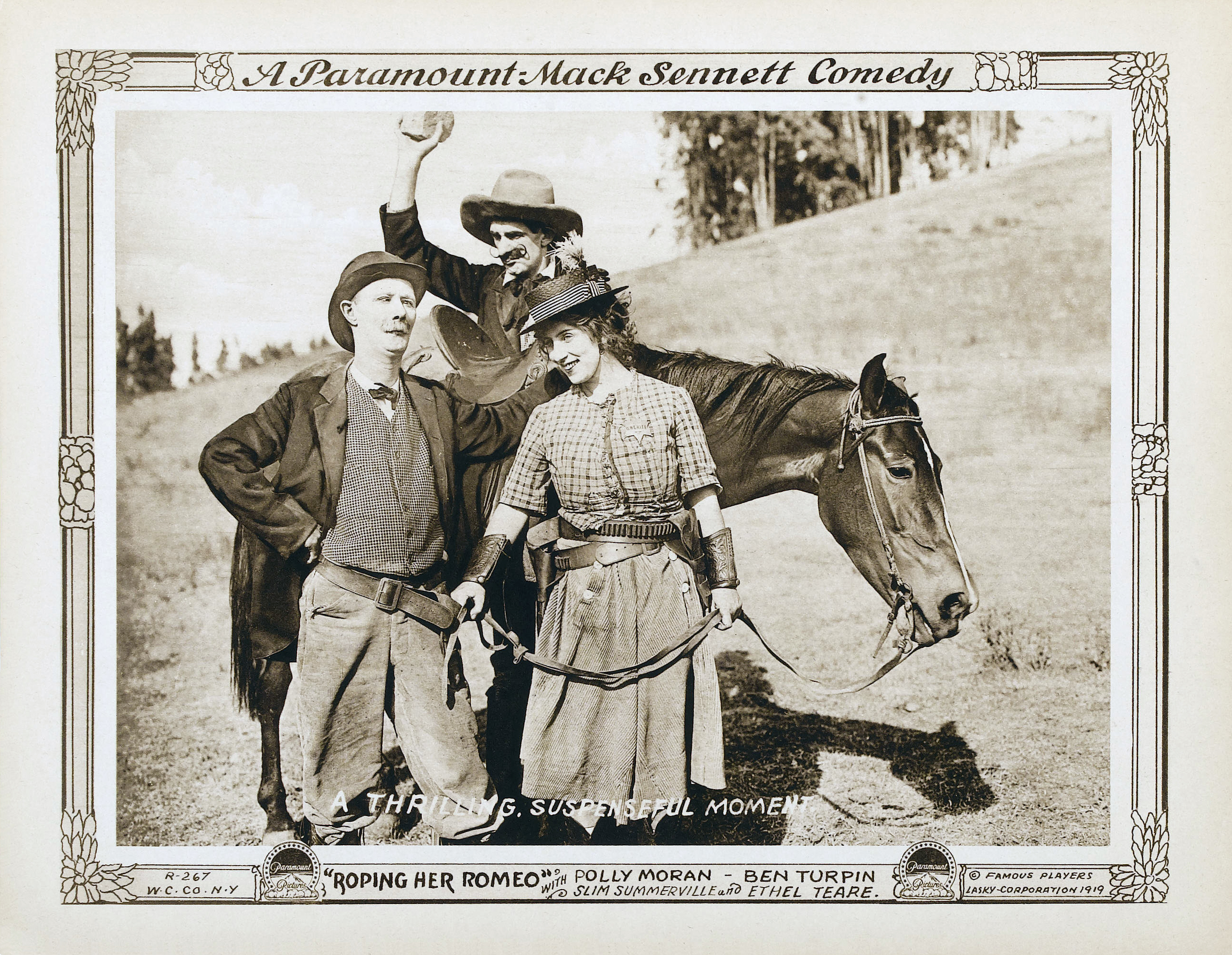 1919 lobby card for the 1917 film Roping Her Romeo, starring Polly Moran, Ben Turpin and George "Slim" Summerville; directed by Fred Fishback